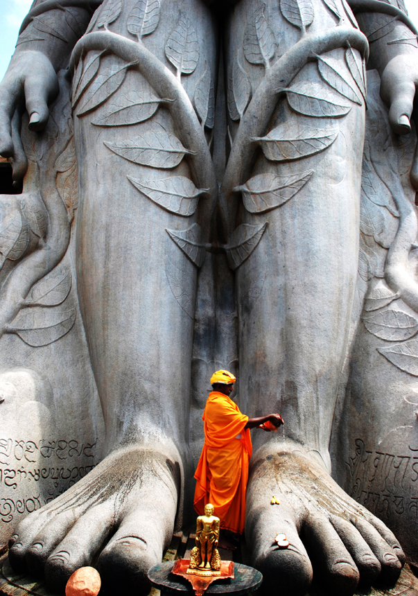 Sravanabelagola